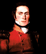 Capt. Patrick Logan. Painting: Mitchell Library, State Library of NSW